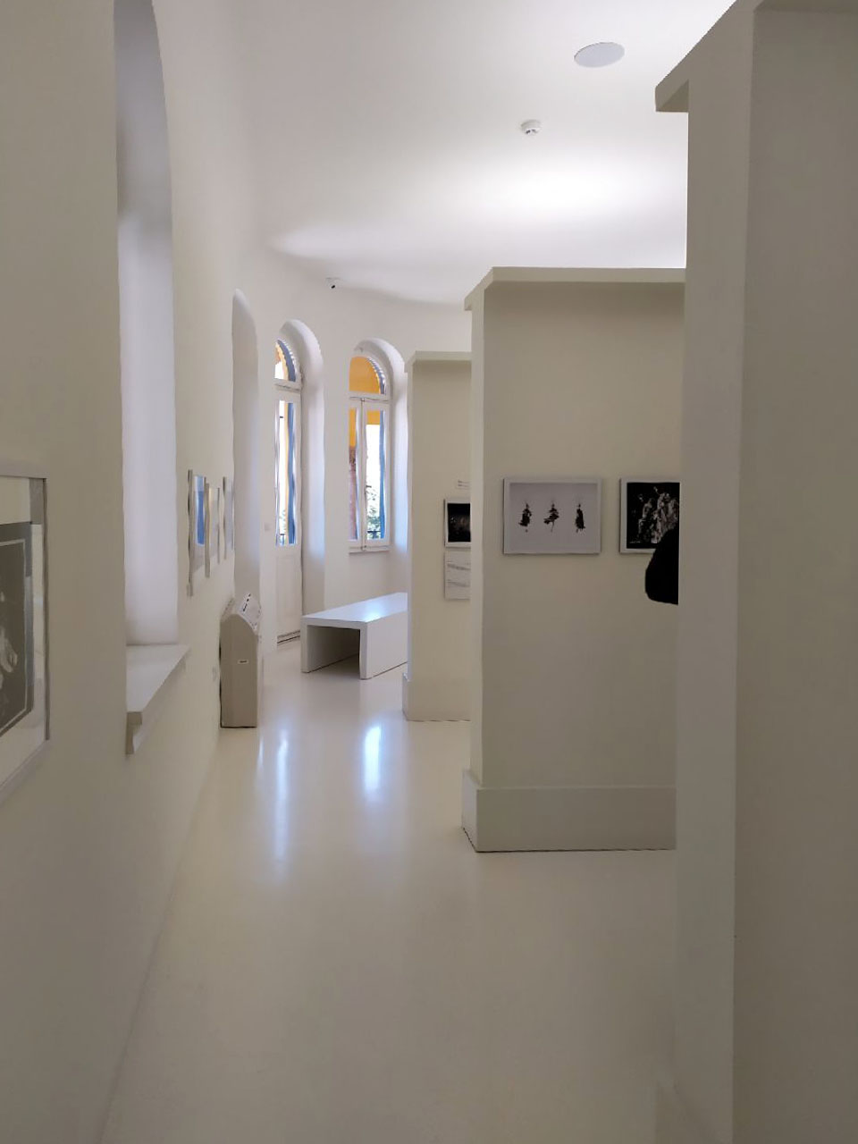 Photo realized during the expedition around Albania for the project The Albanian House.